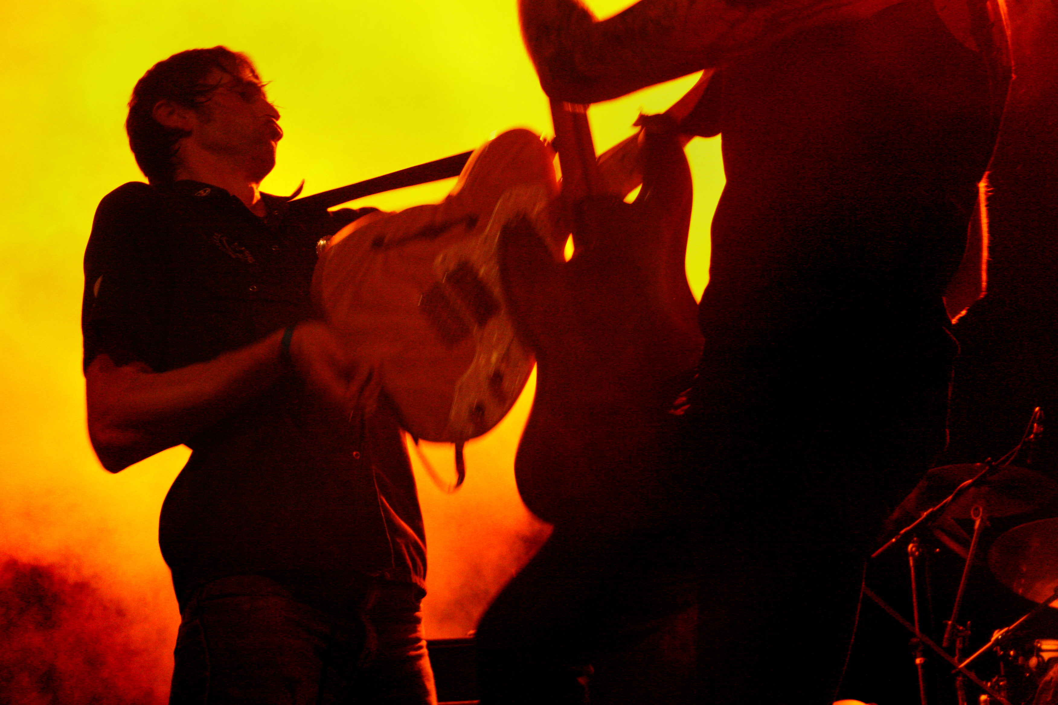 Nigel at powerstation Sept 2009